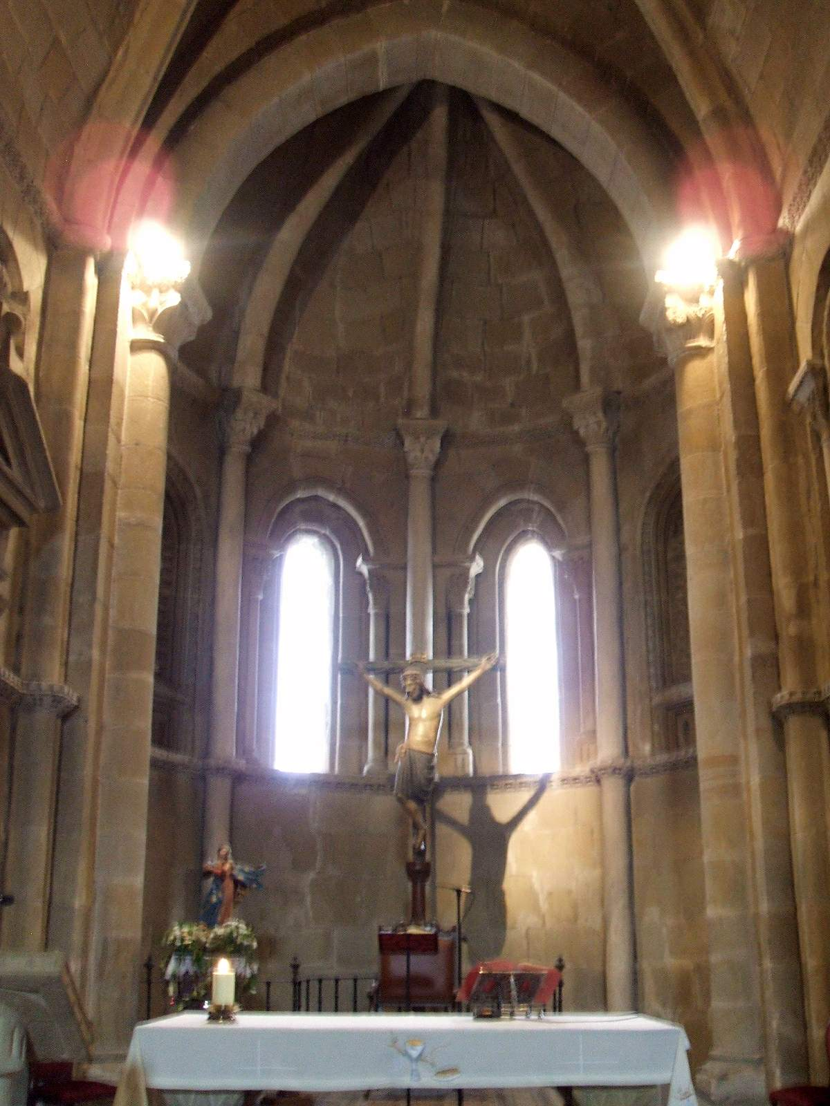 Altar mayor de la iglesia de San Juan de Rabanera (Soria)